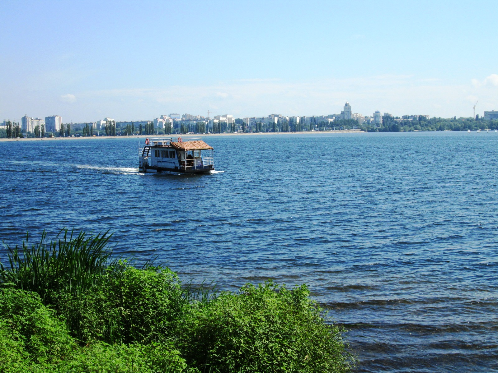 Voronezh River in Voronezh, Russia